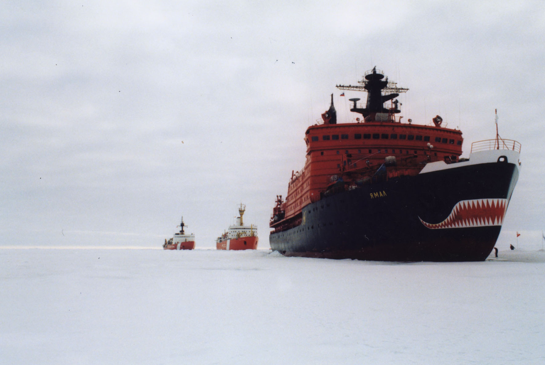 Three icebreakers, Russian Yamal (Arktika class), CCG Louis St. Laurent, USCG Polar Sea. Yamal (Russia) IMO number: 9077549 Callsign: UCJT CCG Louis St. Laurent (Canada) IMO number: 6705937 Callsign: CGBN USCG Polar Sea (United States of America) IMO number: 7391252 Callsign: NRUO